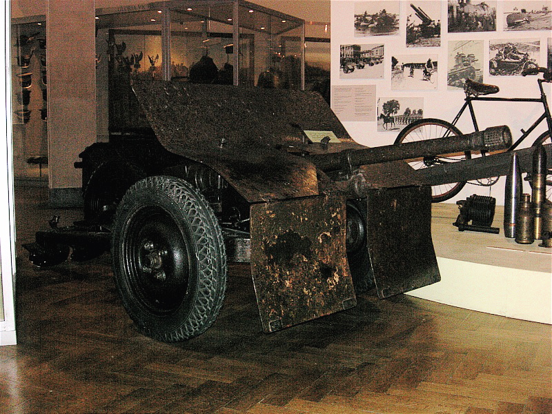 made during a summer day in the Museum of the Polish Army in Warsaw Polish Bofors 37 mm gun, used during the siege of Warsaw of 1939 by an anti-tank company of the Polish 79th Infantry Regiment. During the defence it was hit by a near miss and covered with earth, together with its entire crew. It was discovered in 1977 during the construction of a new hospital in Warsaw's borough of Bródno.